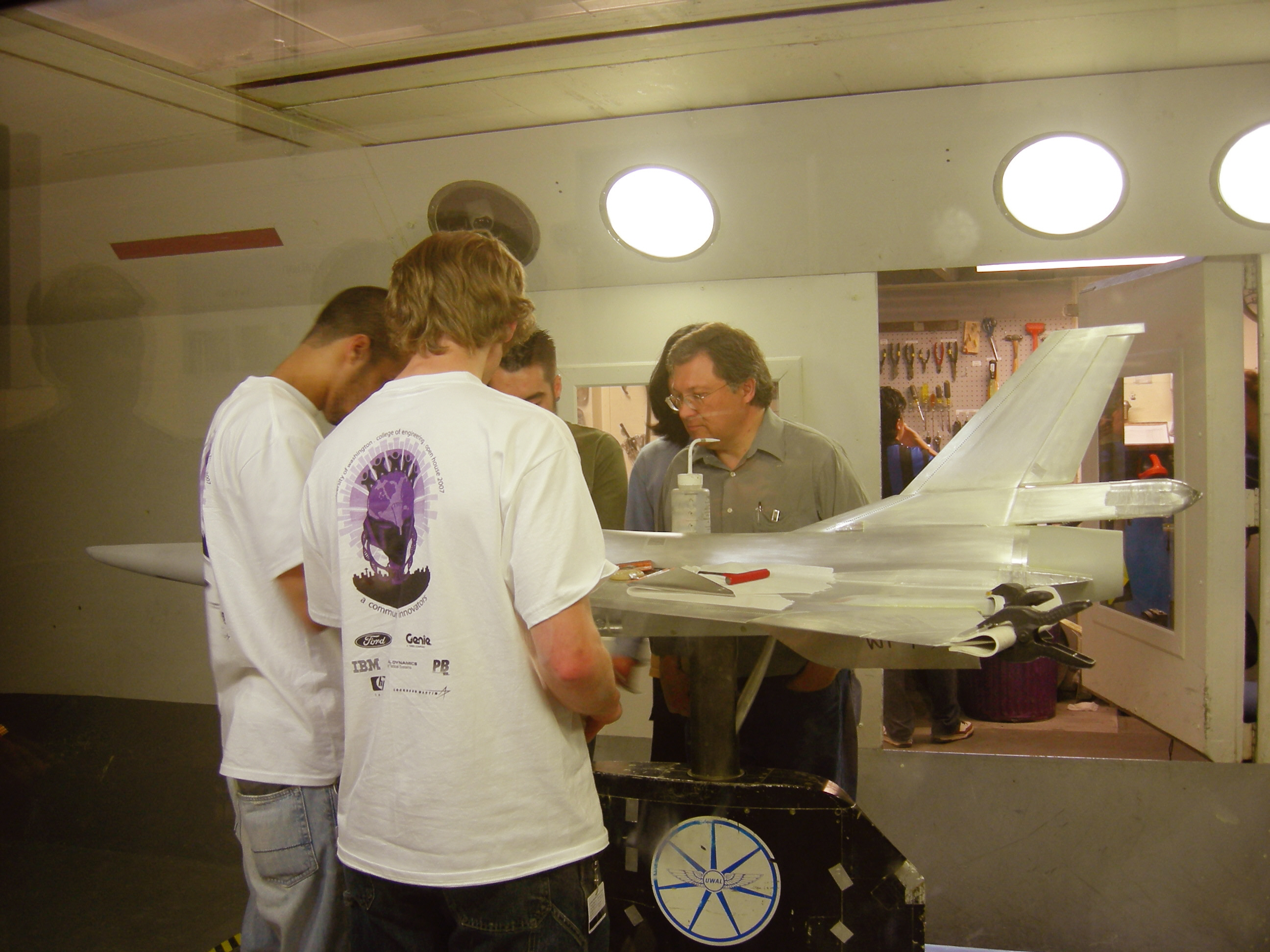 F.K. Kirsten Wind Tunnel, University of Washington Aeronautical Laboratory (UWAL), University of Washington, Seattle, Washington.